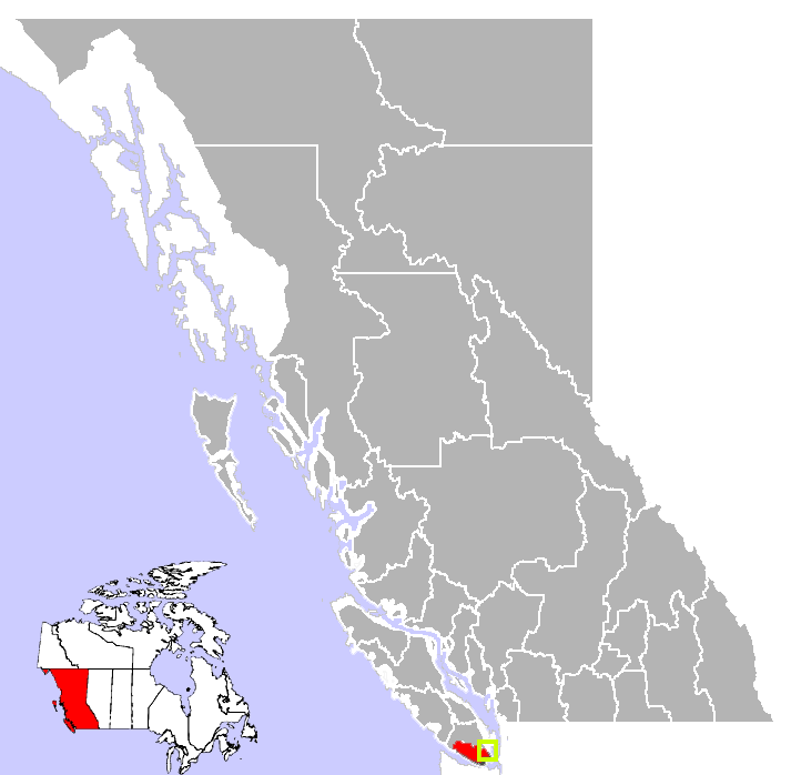 Saanich, British Columbia location.